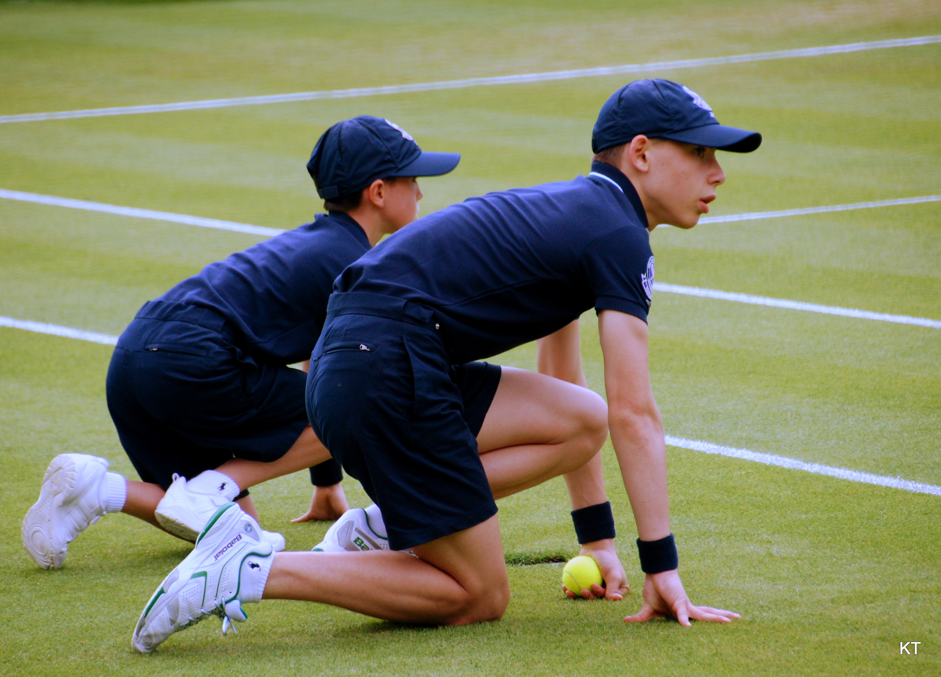 On Court 3